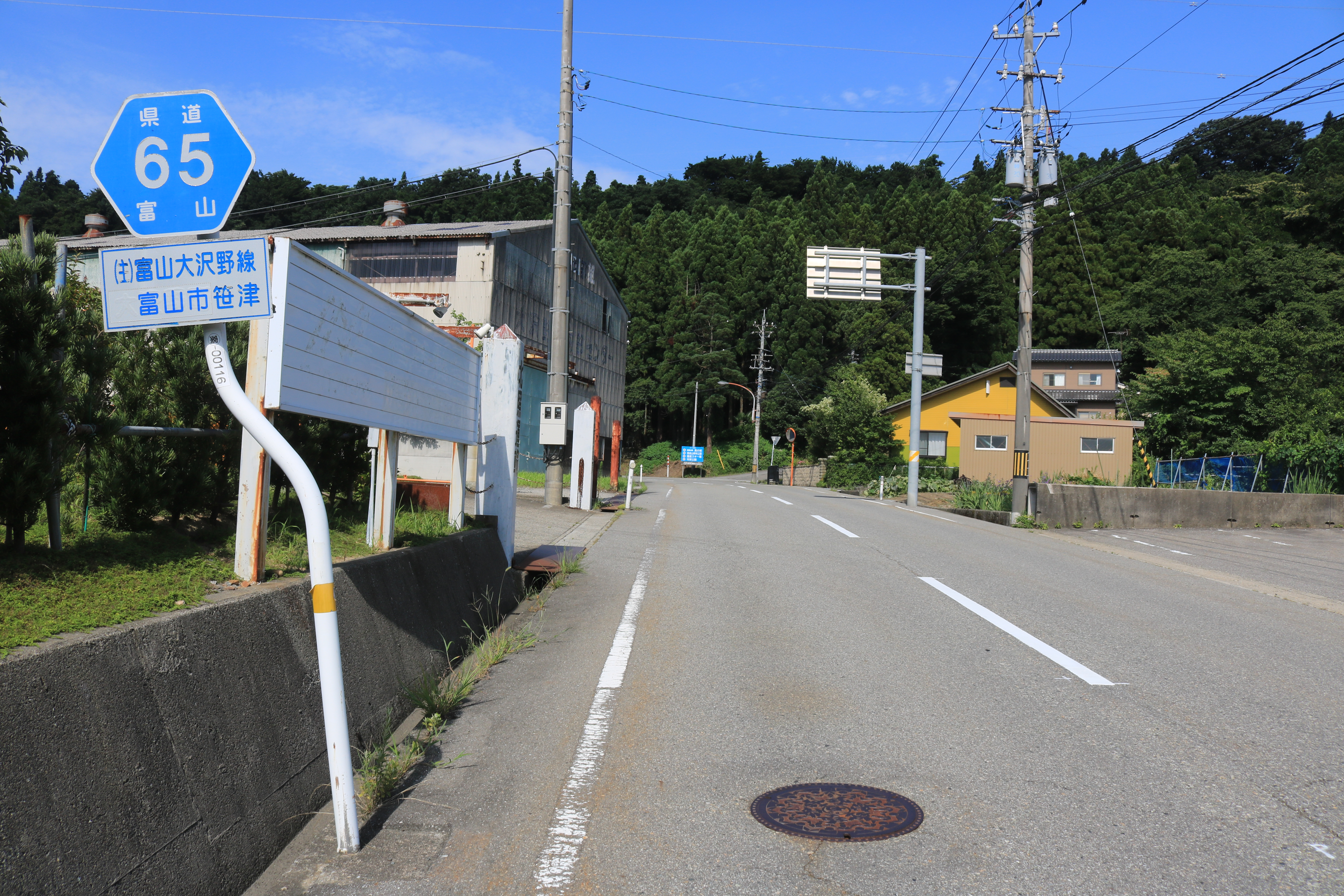 Toyama Prefectural Road Route 65 in Sasaji, Toyama city, Toyama prefecture, Japan.